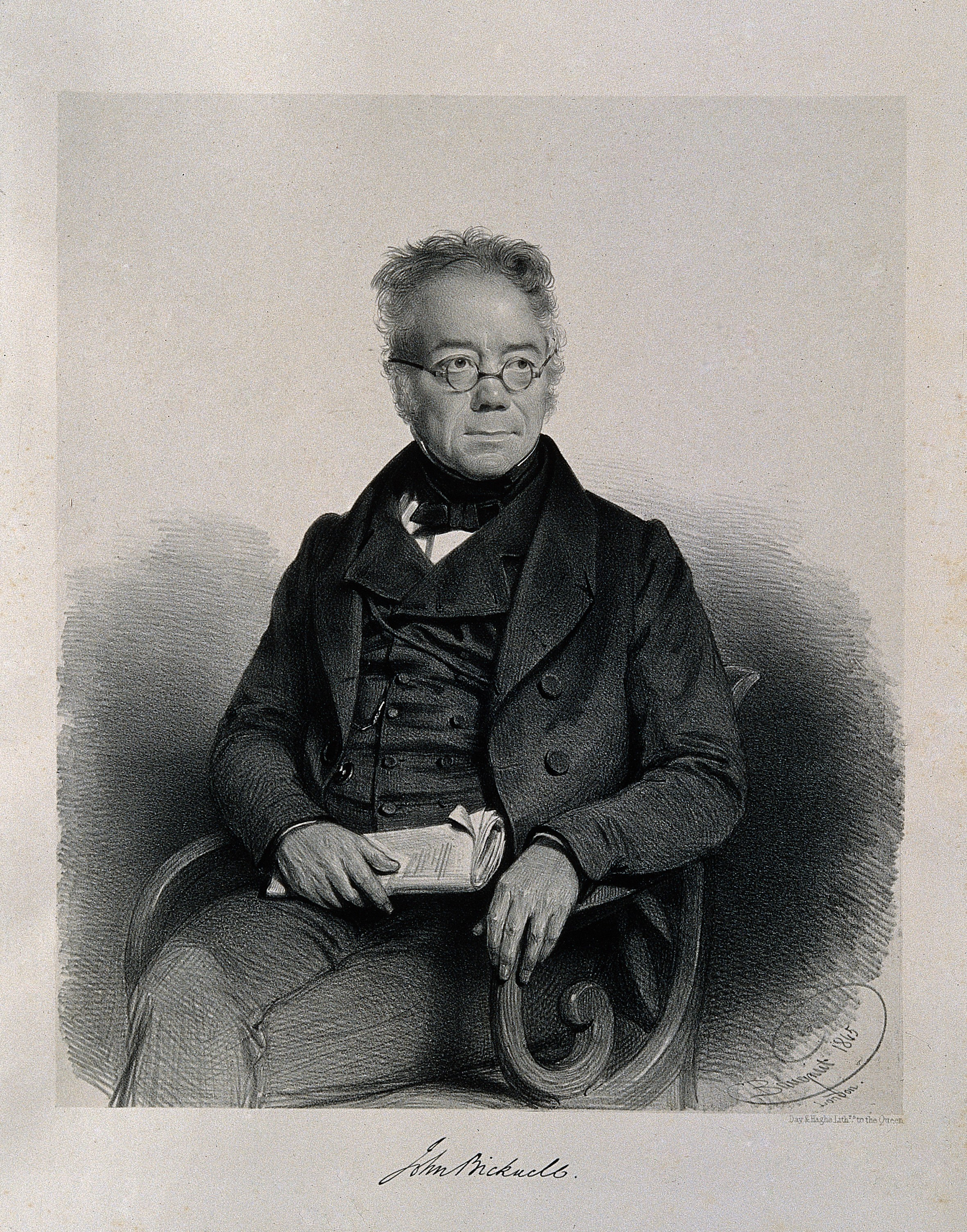 Topic-LCSH: Eyeglasses. Genre/Technique: Portrait prints. Lithographs. Subject name: Bicknell, John, fl. 1845.